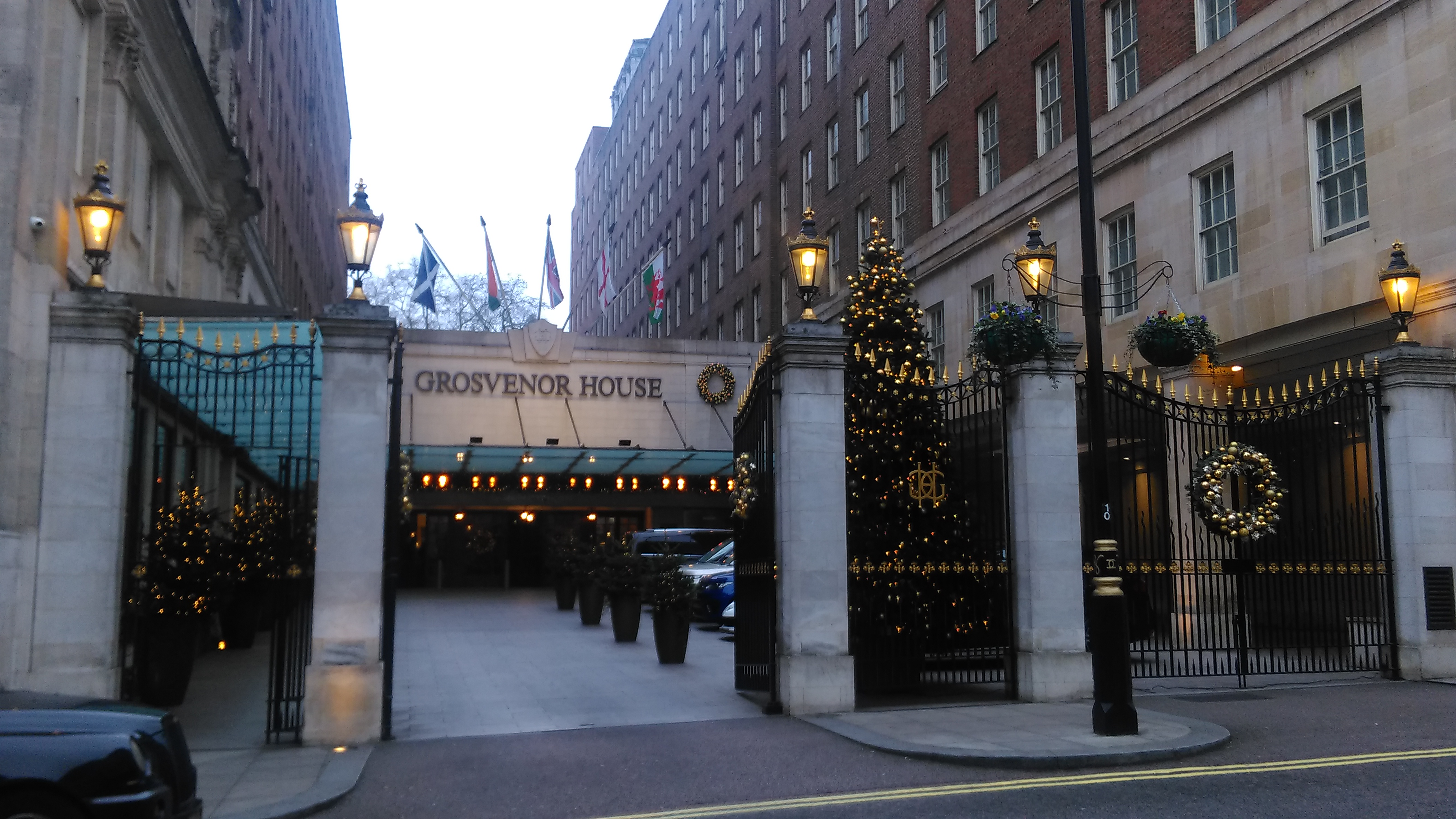 Christmas decorations at Grosvenor House, London, United Kingdom during Christmas 2016.